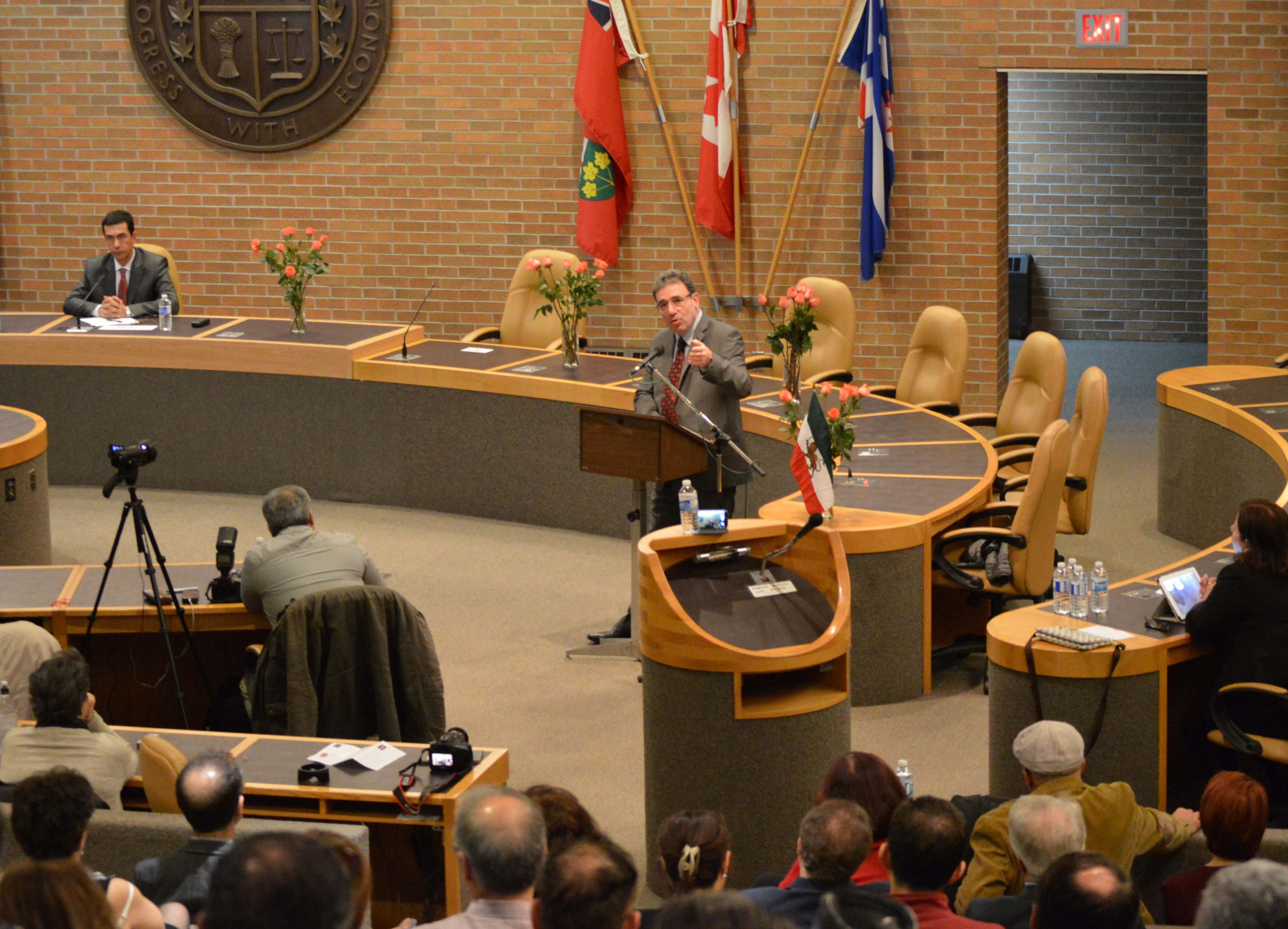 Hassan Diaoleslam ( Dai / Daei ), Persian political activist, in a conference in Toronto, 2015. Photo by Persian Dutch Network